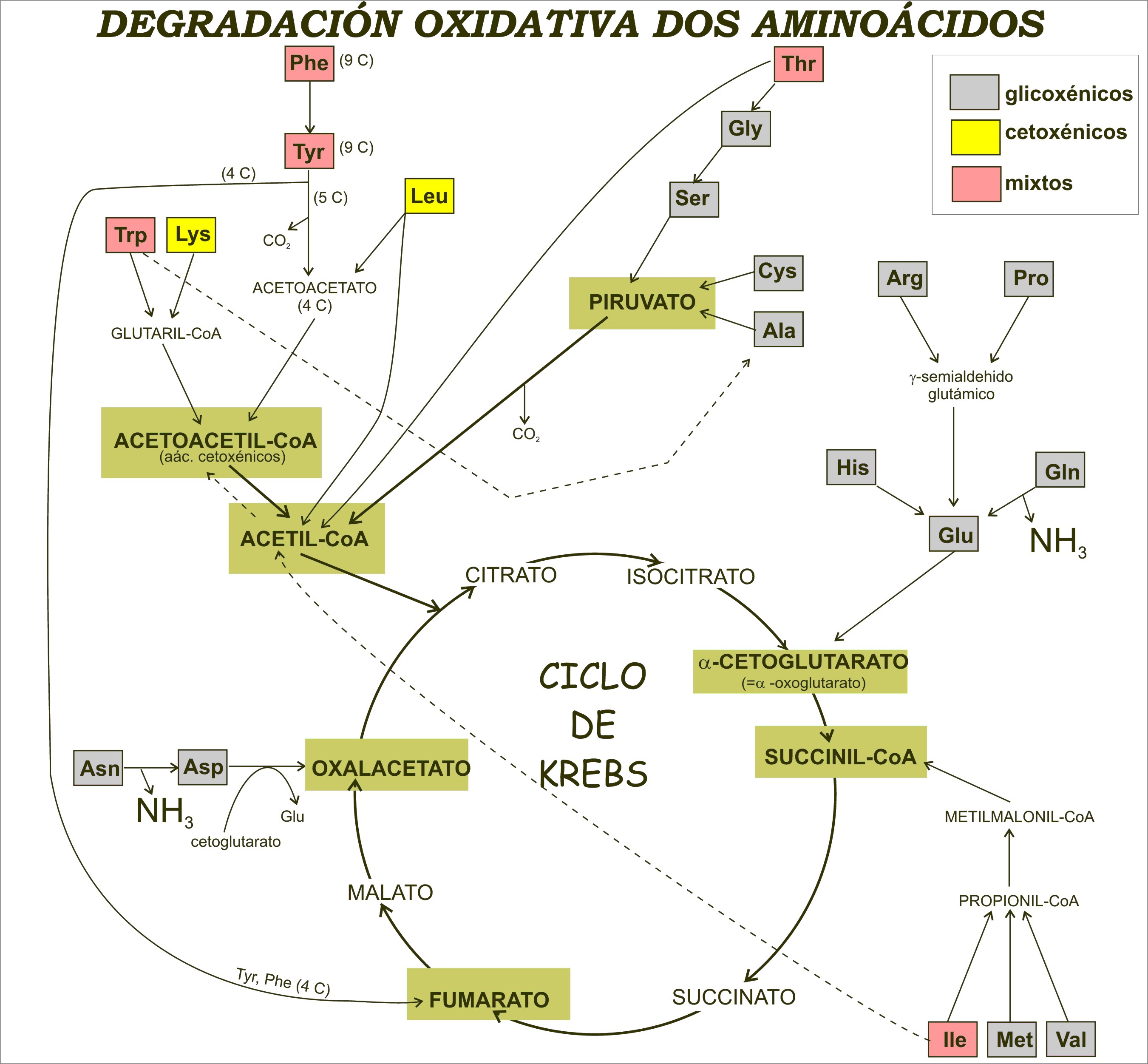 diagram on oxidative degradation of glucogenic and ketogenic amino acids.